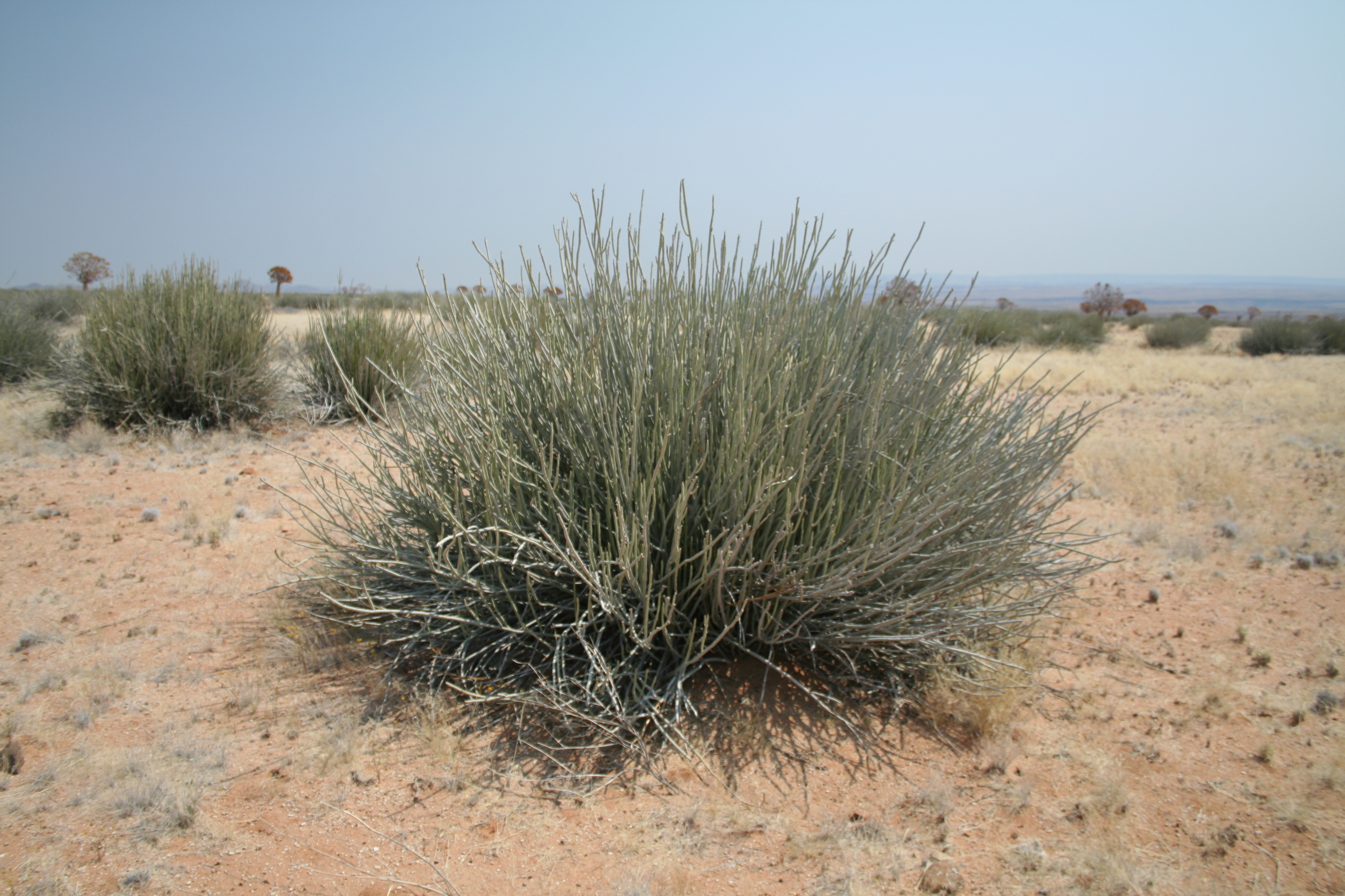 Euphorbia dregeana, near Fish River Canyon, Namibia